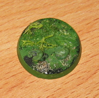 A ready-made tabletop base.